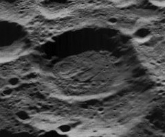 Oblique view of Hogg, on the far side of the moon, facing west.